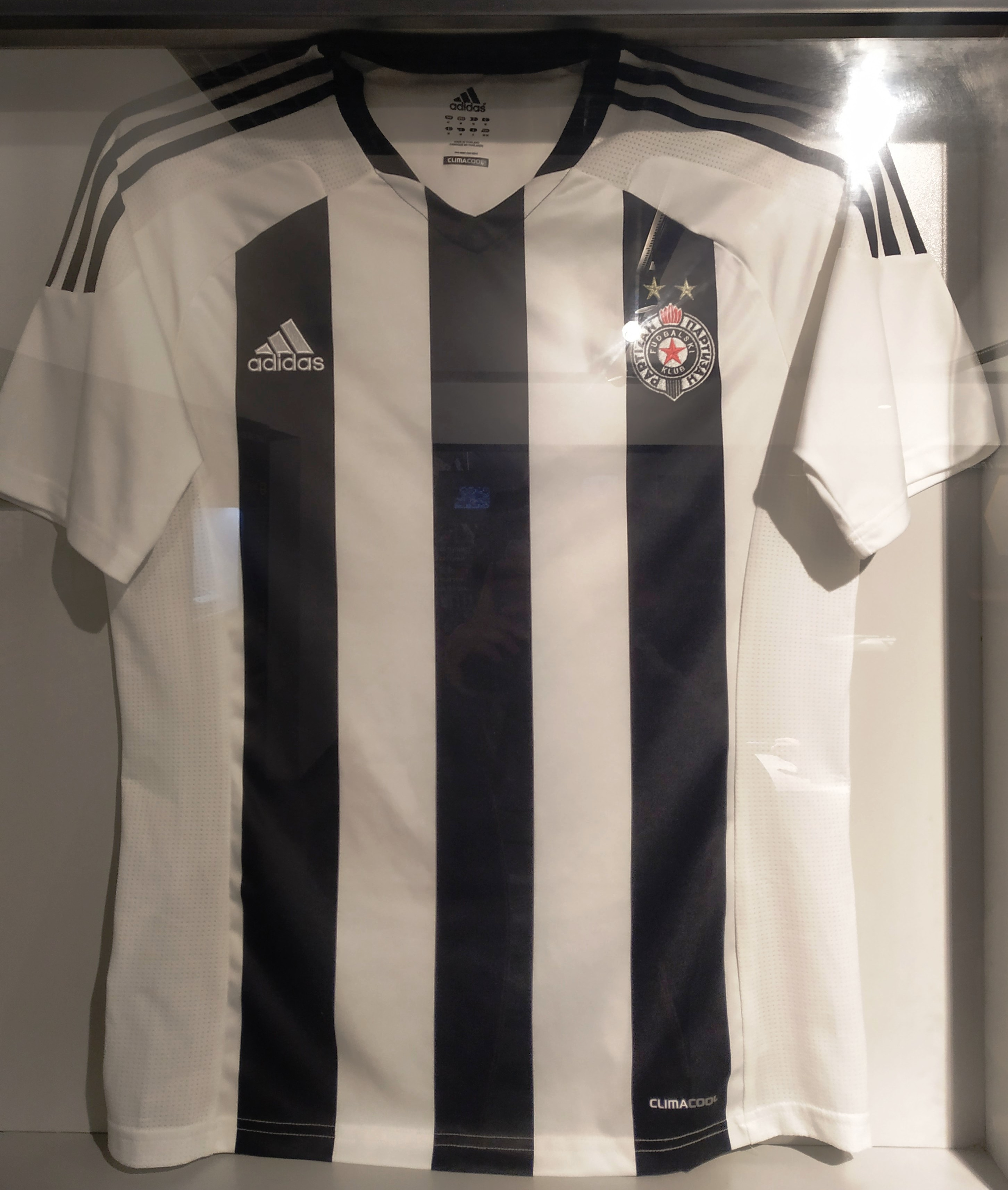 FK Partizan 2012-2013 season home kit